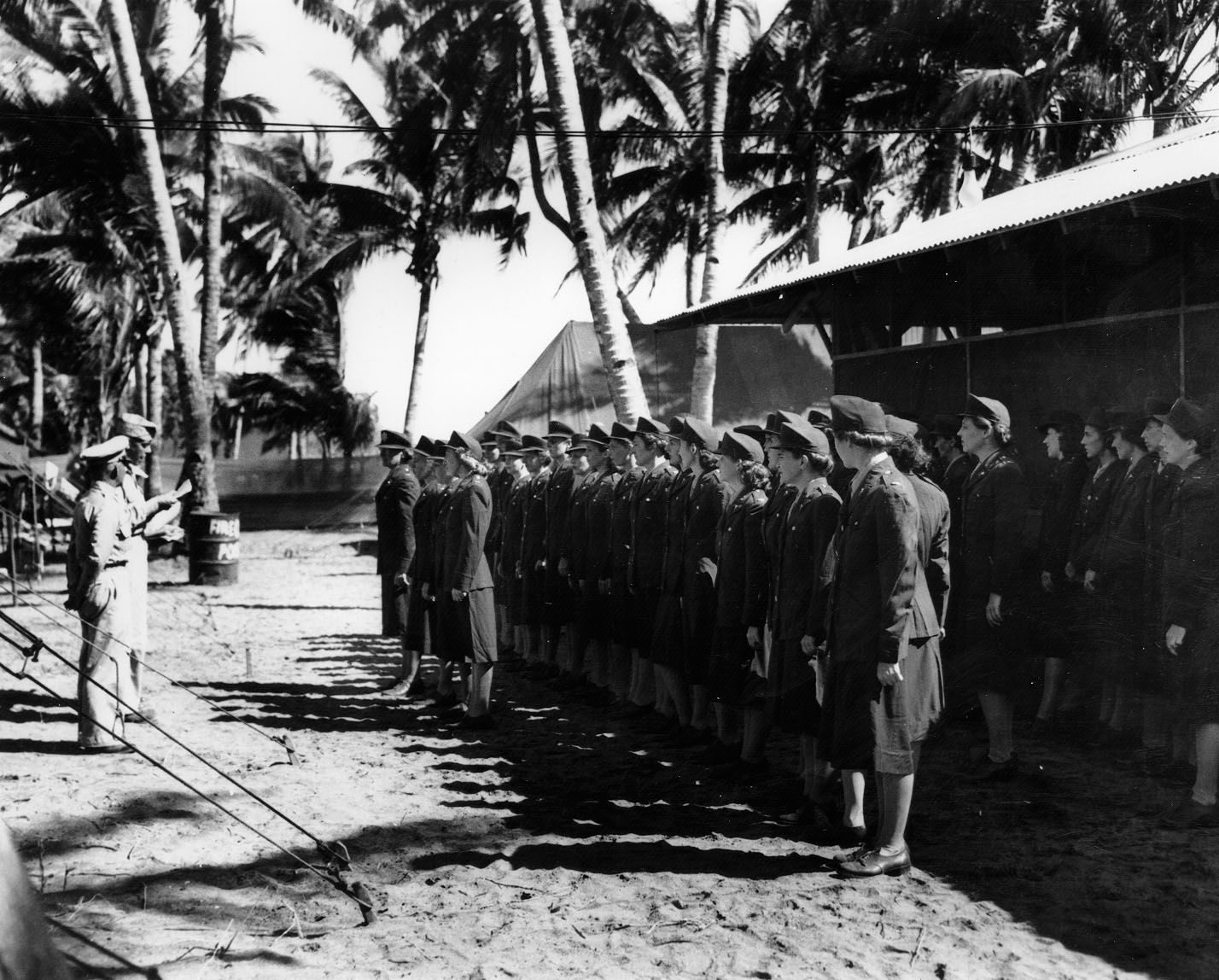 Army nurses, taken prisoners by the Jap[ane]s[e] at Bataan and Corregidor and recently freed from the Santo Tomas University Civilian Concentration Camp at Manila, are awarded Bronze Stars, along with promotions, before their departure for the United States. Brig. Gen. Guy B. Denit, Chief Surgeon, SWPA, made the presentations at the 1st Convalescent Hospital, Tolosa, Leyte Island. 20 February 1945